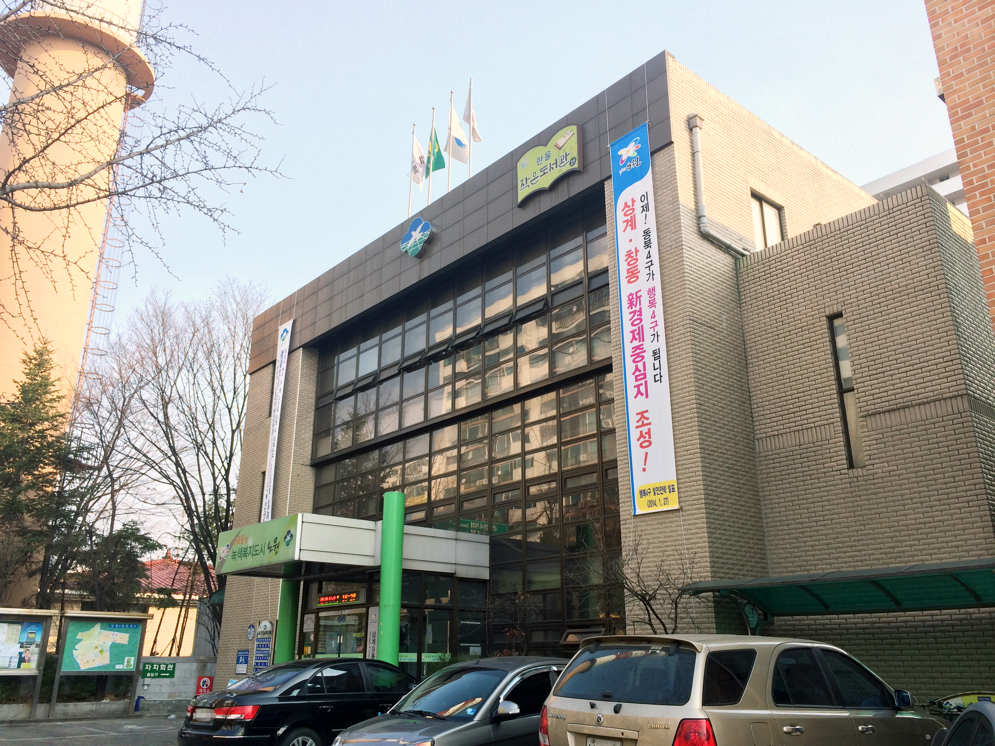 Sanggye 9-dong Comunity Service Center (Nowon-gu)